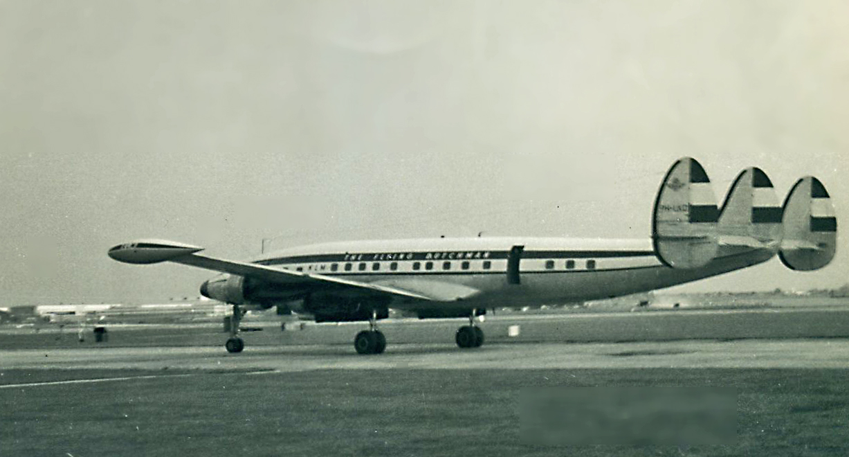 A startling feature of a long gone era is the fact that the door has been opened while still taxiiing. This is an L-1049, so not a Starliner. It was broken up at Amsterdam in 1962